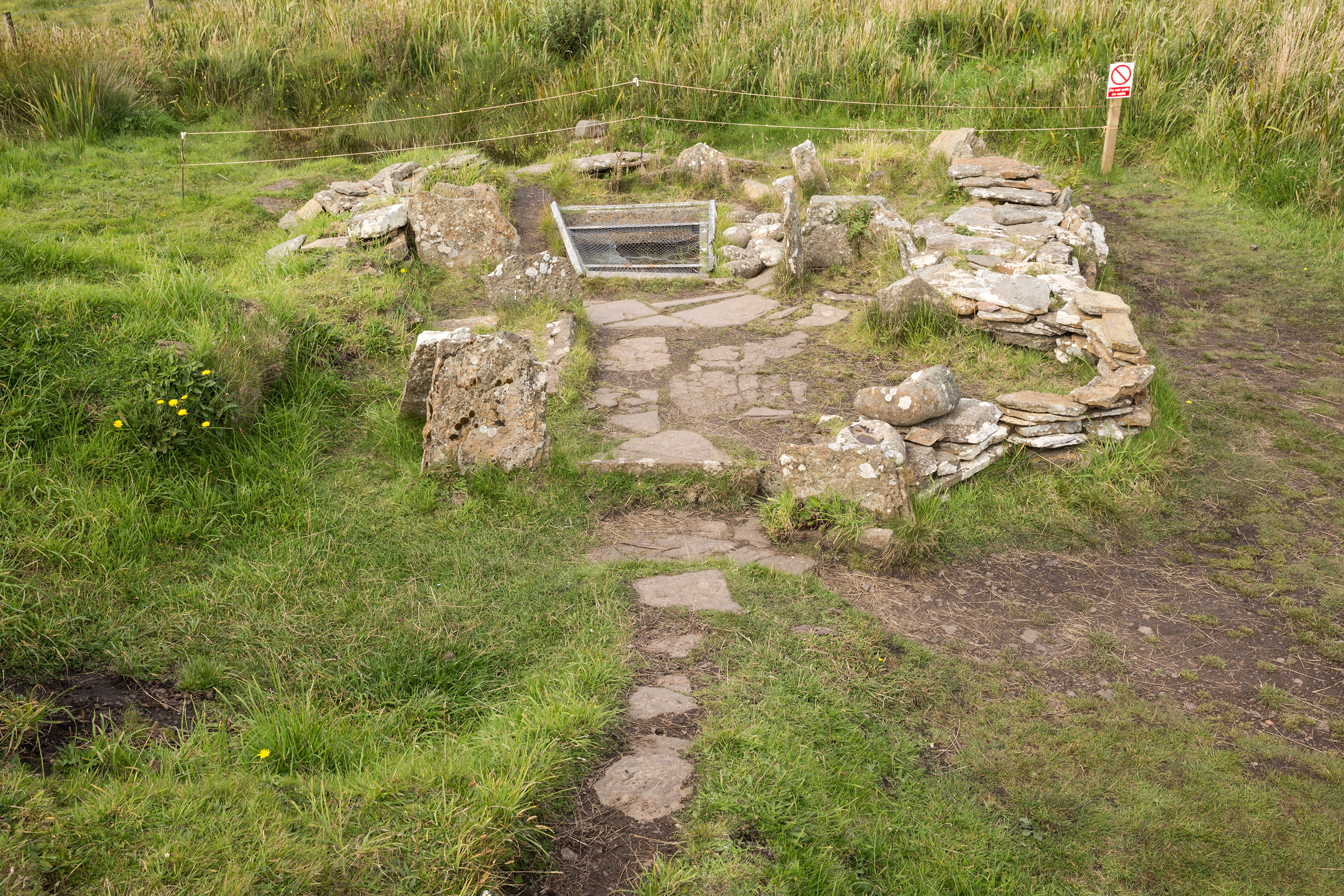 Liddle Burnt Mound, archaeological site on South Ronaldsay, Orkney Islands